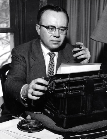 Russell A. Kirk at his typewriter.